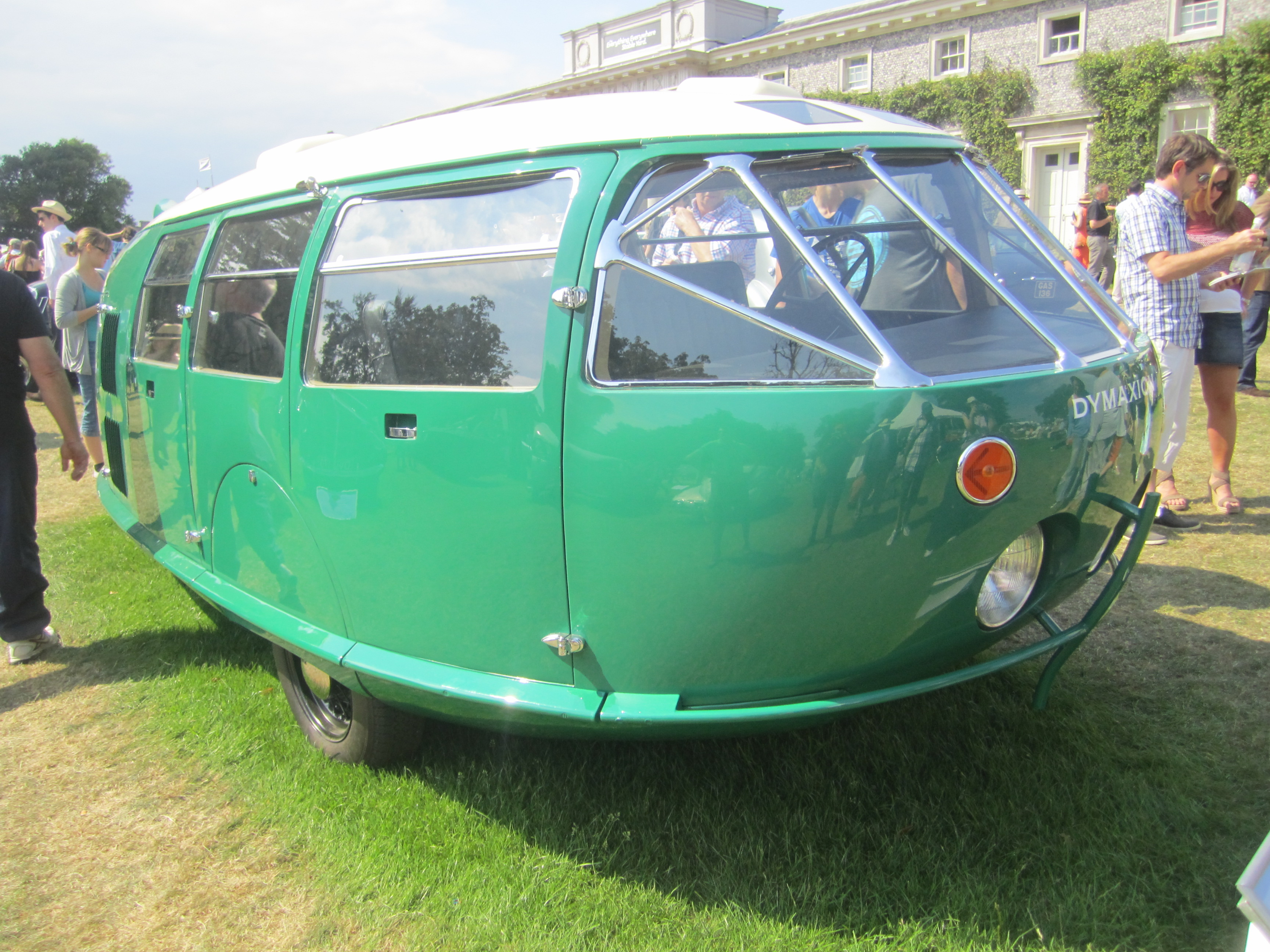 This car was built by R.Buckminster Fuller as a sort of streamlined MPV, the engine at the rear was a Ford V8. It was steered by a single rear wheel. Only 3 Prototypes were built. Taken at the Goodwood Festival of Speed 2011 Cartier Style Et Luxe Concours D'elegance